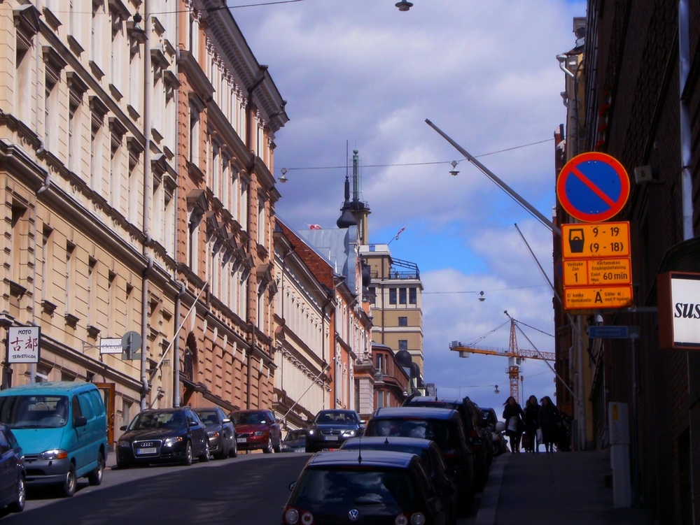 The hill between Annankatu and Fredrikinkatu in the street "Kalevankatu", Helsinki, Finland